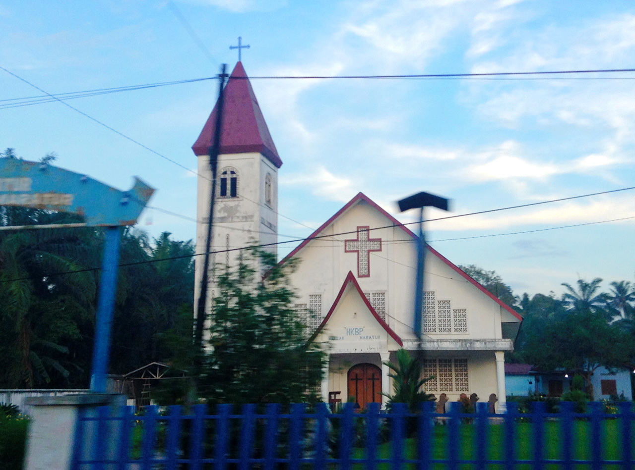 HKBP Bandar Maratur, Church in Bandar, Kec. Bandar, Simalungun